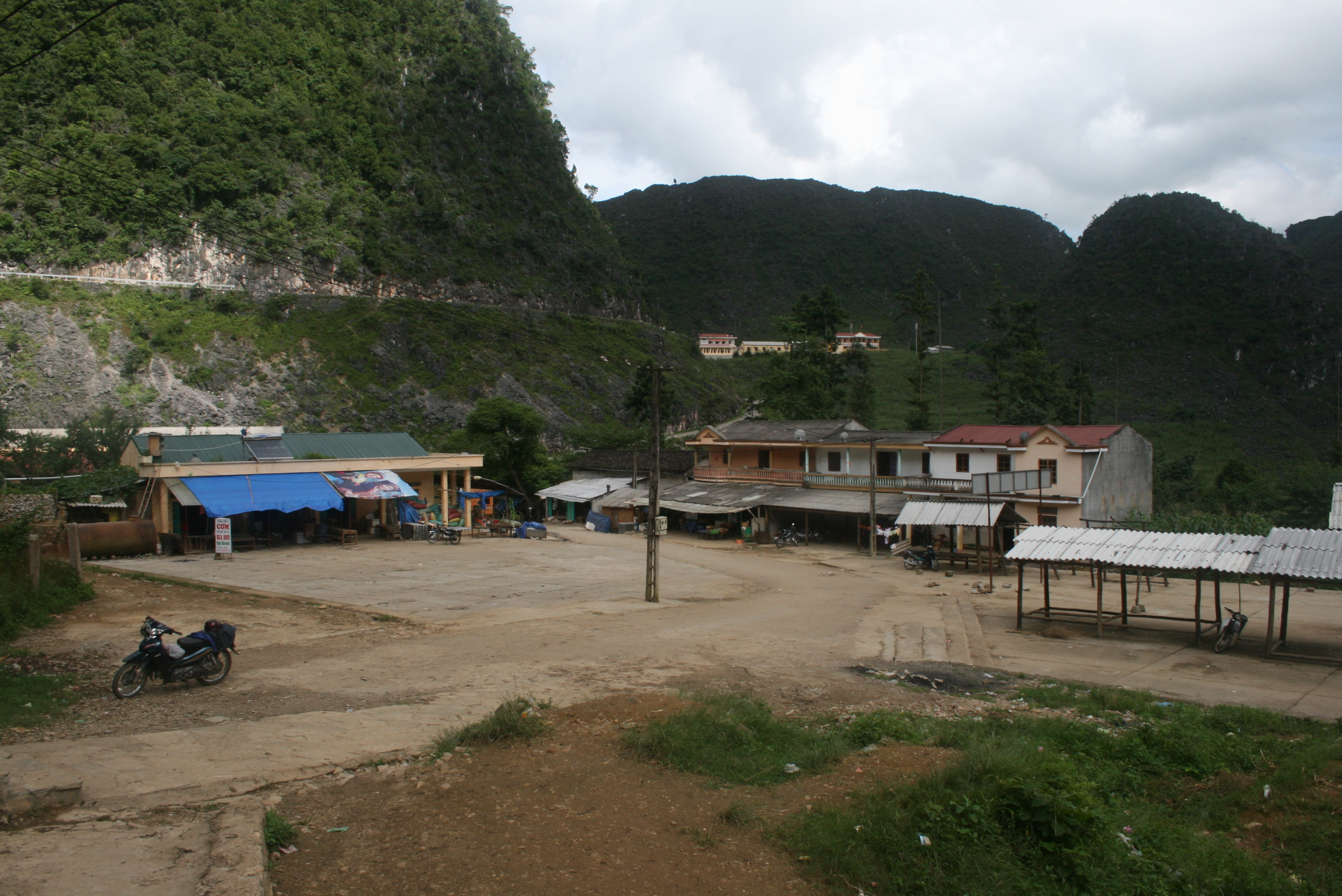 Sa Phin, Dong Van district, Ha Giang province, Vietnam